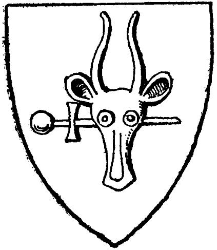 Coat of arms Pomian from the seal of Mikołaj, 1430